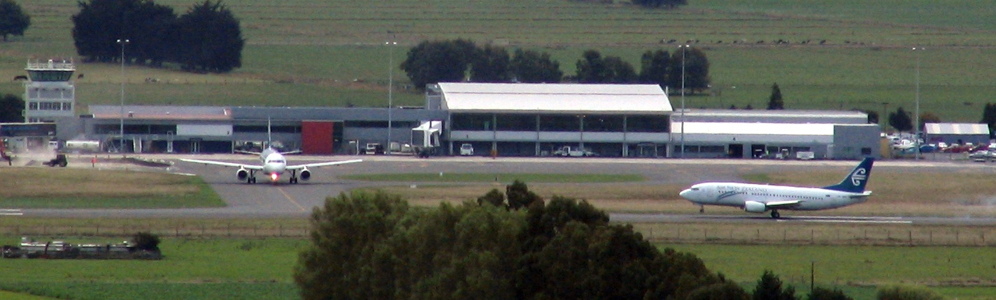 Dunedin International Airport, New Zealand (IATA: DUD, ICAO: NZDN). Air New Zealand Boeing 737-300 ZK-NGF touching down on runway 21, while an Air New Zealand Airbus A320-200 waits on the taxiway. From McLaren Gully Road, approx 2.6km away, looking northwest.